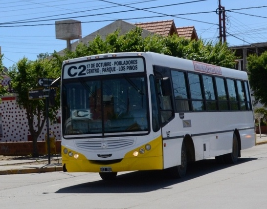 Foto mía, C2 en centro